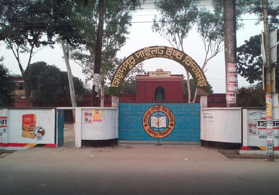 Saidpur high school's images